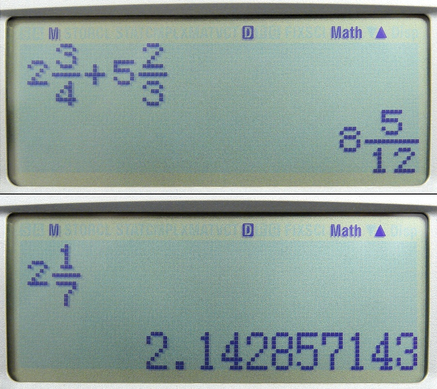 Casio Scientific calculator display showing fractions.